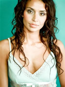 this image has been authorised by Christine Bleakley for free use and by Christine Bleakley's management and uploaded by Austen Lennon Austenlennon 18:09, 6 October 2007 (UTC) austenlennon with full permissions. Presenter of the One Show on BBC.